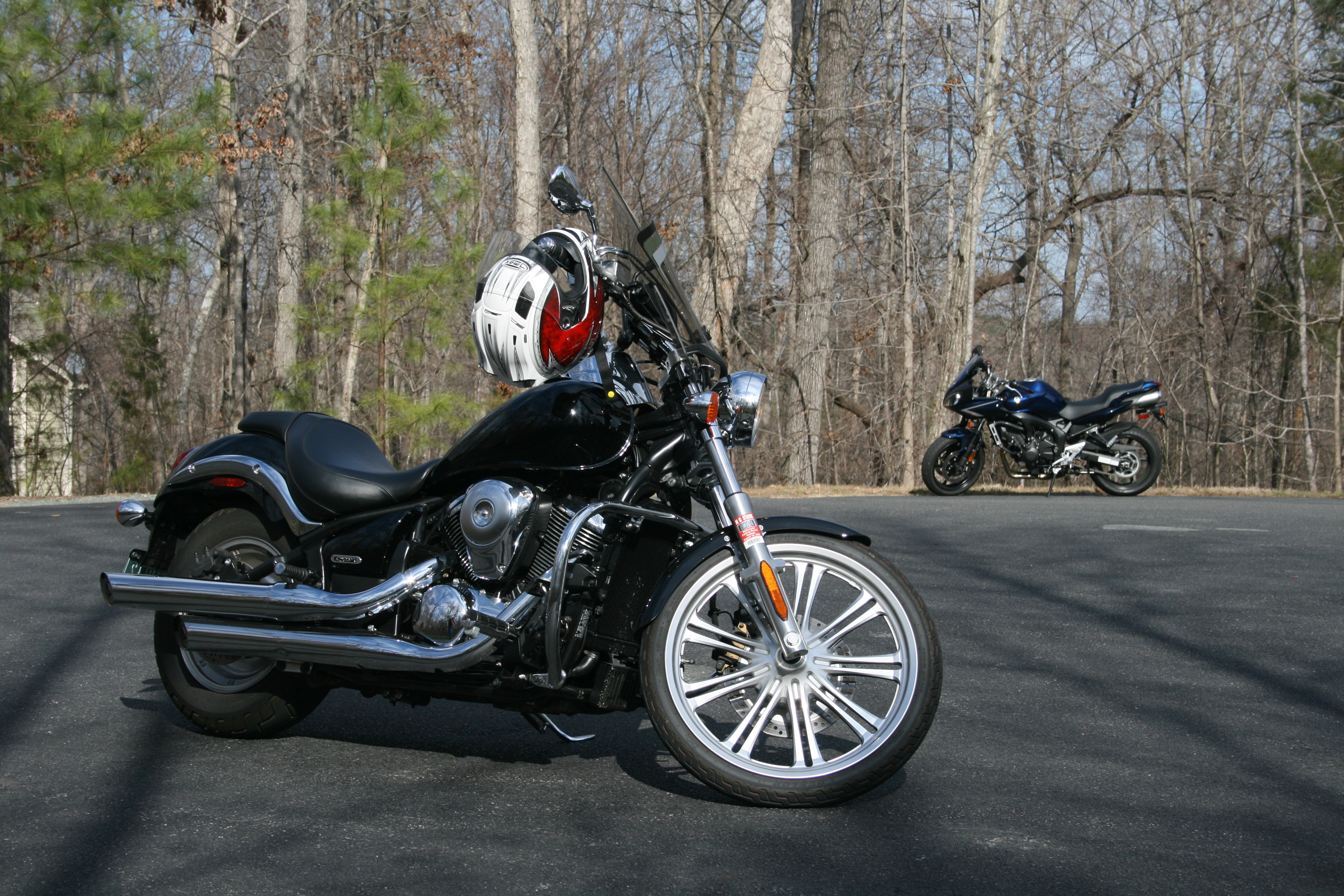 A Kawasaki Vulcan 900 Custom cruiser with a GMax Crusader helmet, and a Yamaha FZ6 motorcycle in the background, at the court at the end of Booth Road in Carrboro, North Carolina.